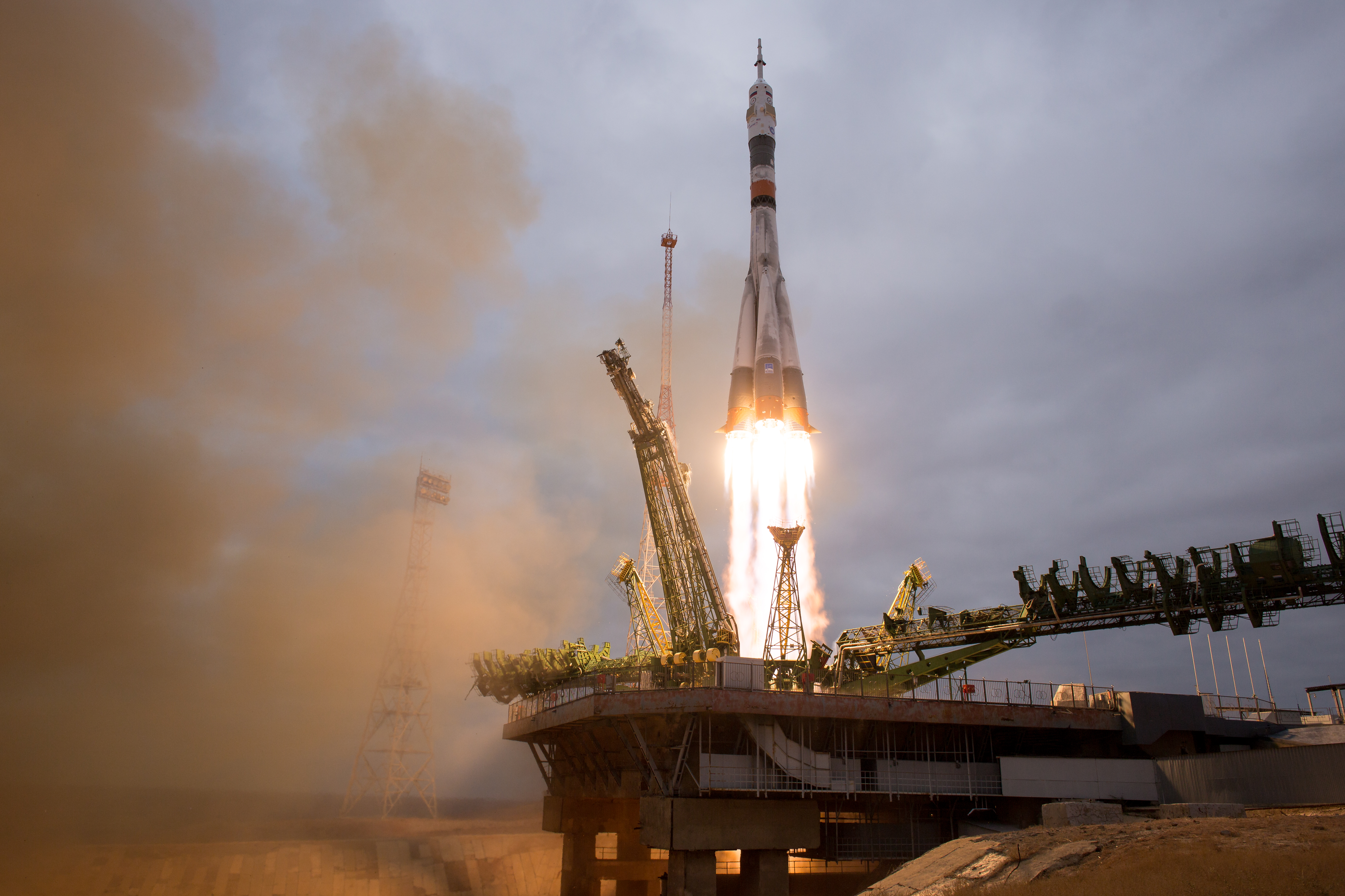 The Soyuz MS-02 rocket is launched with Expedition 49 Soyuz commander Sergey Ryzhikov of Roscosmos, flight engineer Shane Kimbrough of NASA, and flight engineer Andrey Borisenko of Roscosmos, Wednesday, Oct. 19, 2016 at the Baikonur Cosmodrome in Kazakhstan. Ryzhikov, Kimbrough, and Borisenko will spend the next four months living and working aboard the International Space Station. Photo Credit: (NASA/Joel Kowsky)